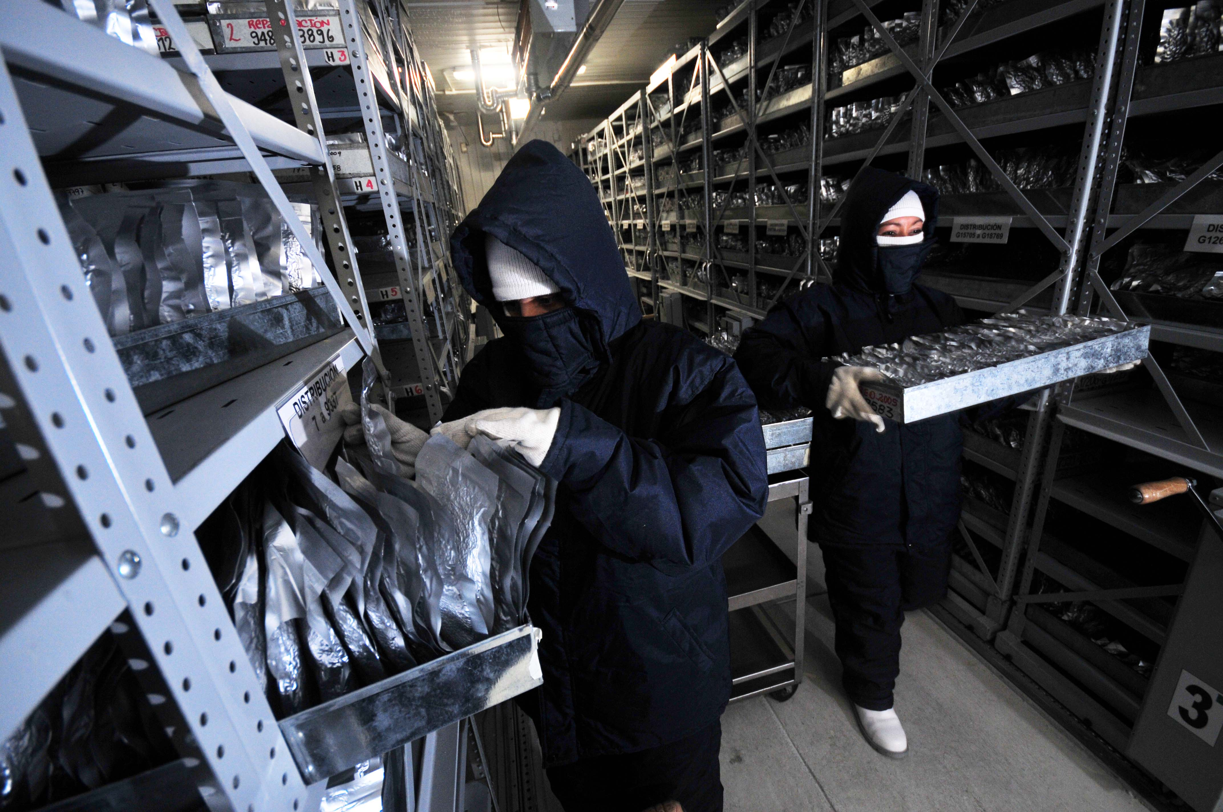 Pic by Neil Palmer (CIAT). Members of CIAT's Genetic Resources program work at minus 20 degrees Celsius in the institution's gene bank.